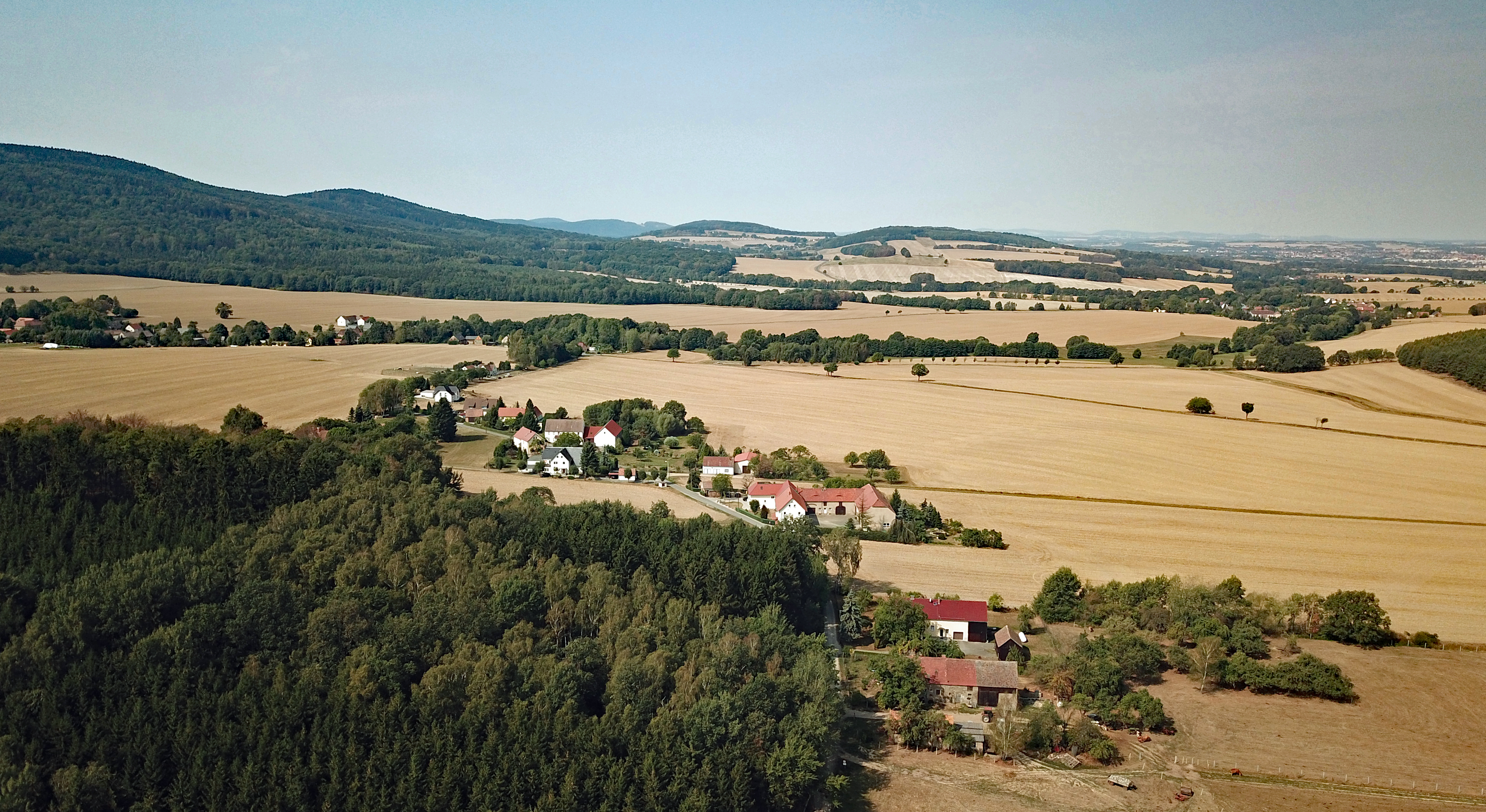 Neuwuischke (Hochkirch, Saxony, Germany) Hornjoserbsce: Powětrowy wobraz Noweho Wuježka